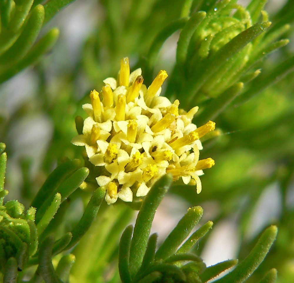 Peucephyllum schottii in Furnace Creek Wash, Death Valley, California